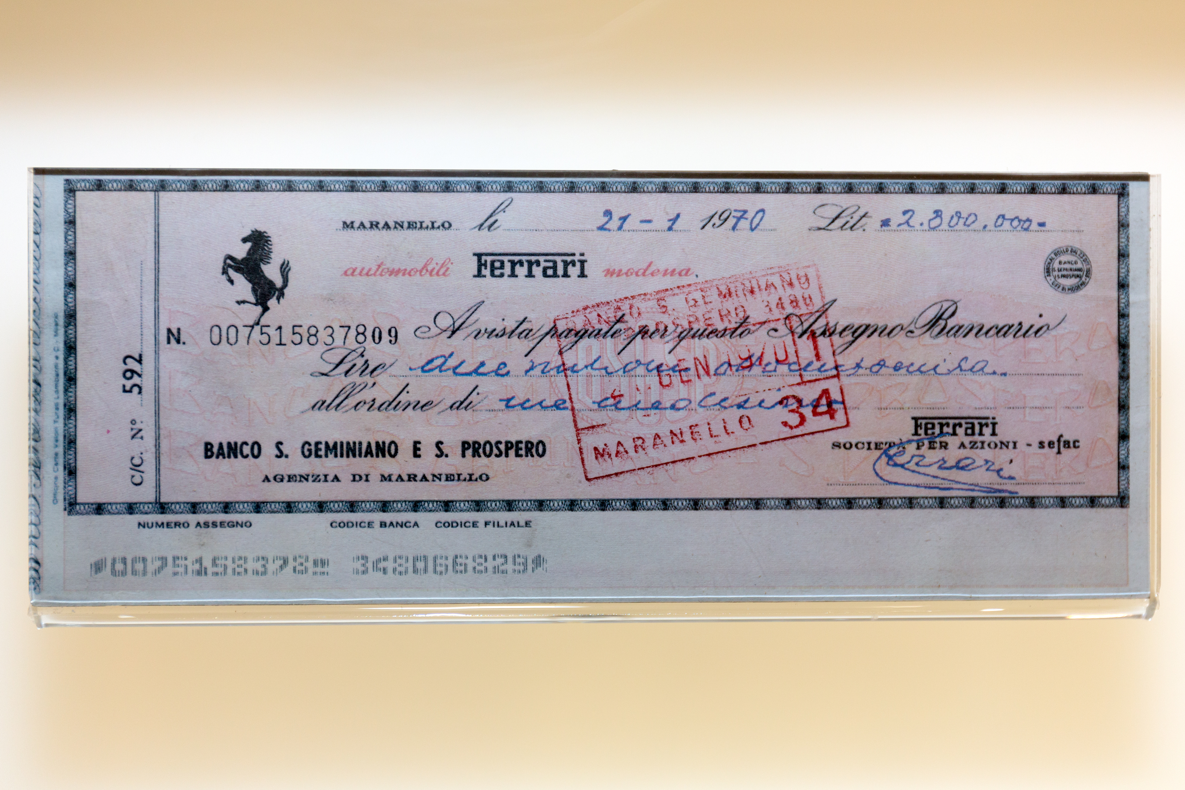 Cheque signed by Enzo Ferrari with purple ink, in 1970.